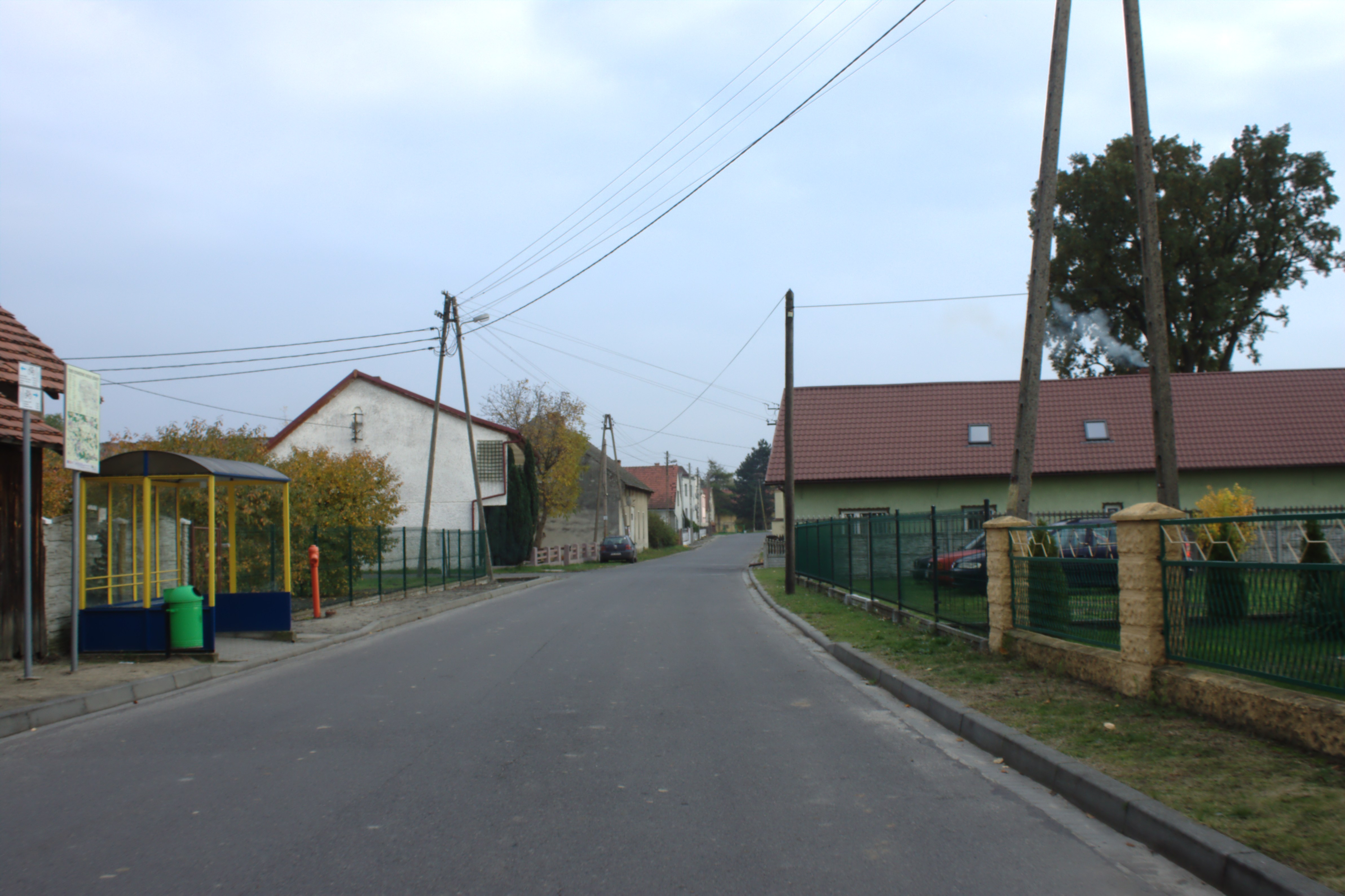 A road in the village of Krasowa near the Oder River, near Leśnica, Poland